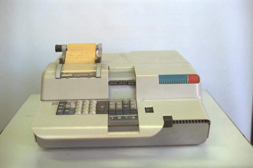 Olivetti Programma 101 desktop computer